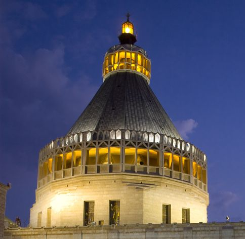 Cupola of the Church of the Annunciation